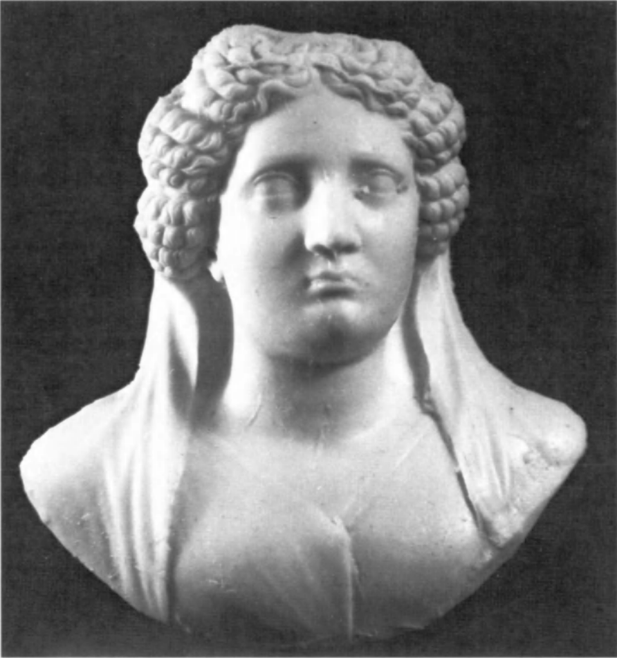 Bust of a veiled woman, from a terracotta mould, Ay Khanoum, Afghanistan. Actual mould p.116